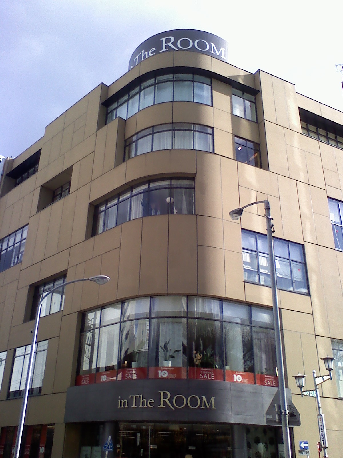 in The Room Nagoya